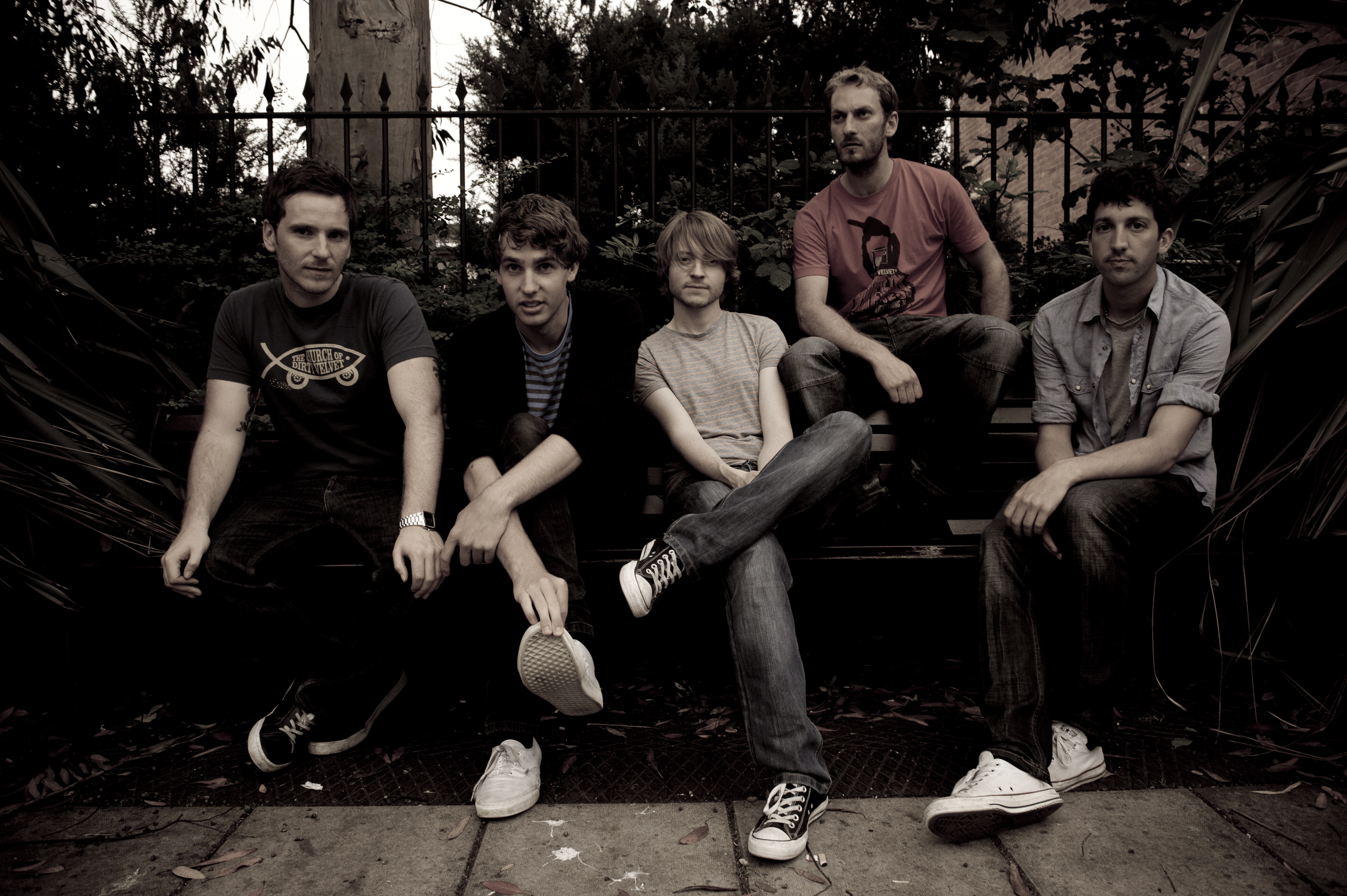 A picture taken by me of the band Rapids!